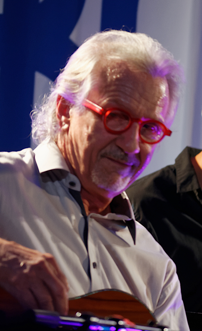 Sara Niemietz & Snuffy Walden performing live at the SAE Institute in Los Angeles California on Saturday June 11th, 2016. Part of the On Stage video production special, presented by BlueMoon Productions. Left to right: W. G. Sunffy Walden, Jonathan Richards, Sara Niemietz